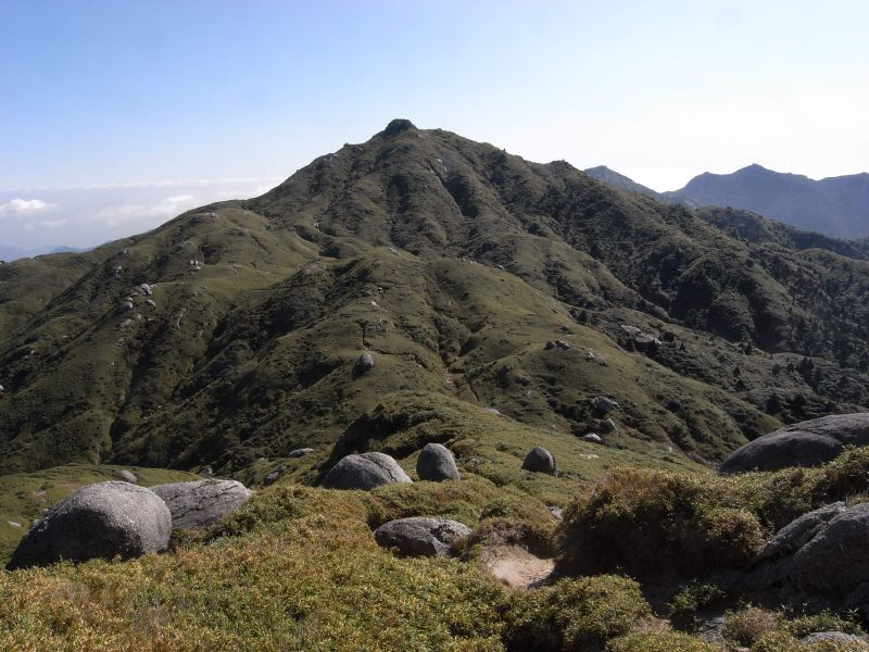 Mount Miyanoura from Mount Nagata. Yakushima, Japan.